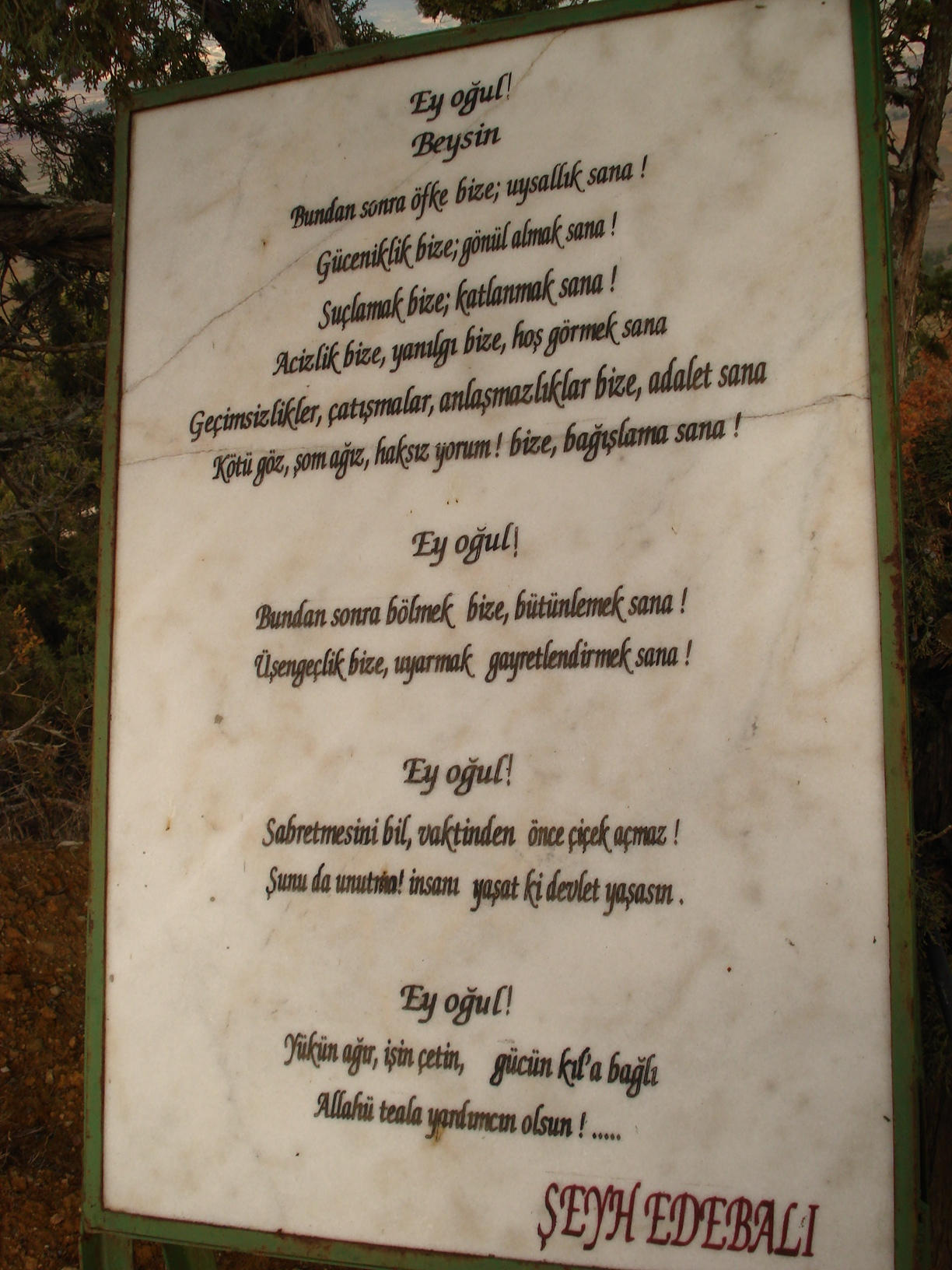 Sheik Edebali's advice letter in Söğüt.